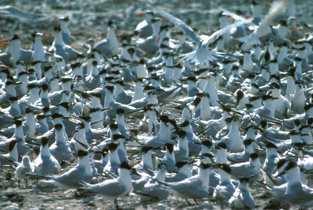 Cabot's Terns Thalasseus acuflavidus dense colony, with a few Royal Terns Thalasseus maximus (red bills). USA.